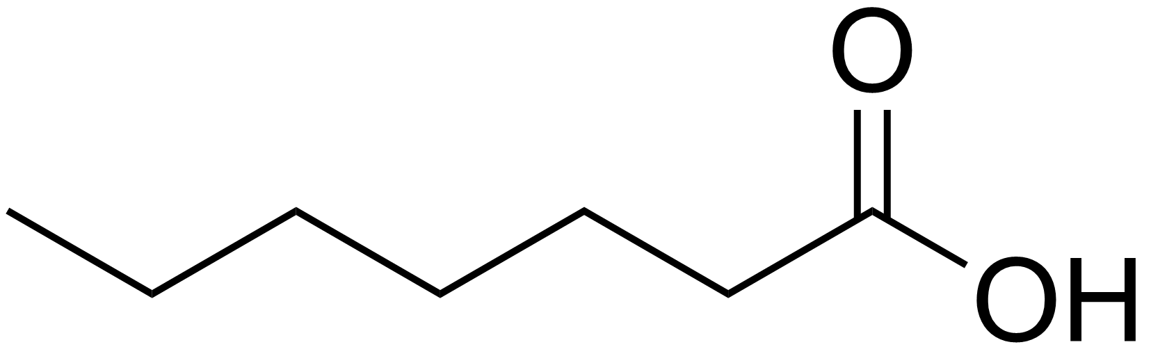 Chemical structure of heptanoic acid created with ChemDraw. Own work.